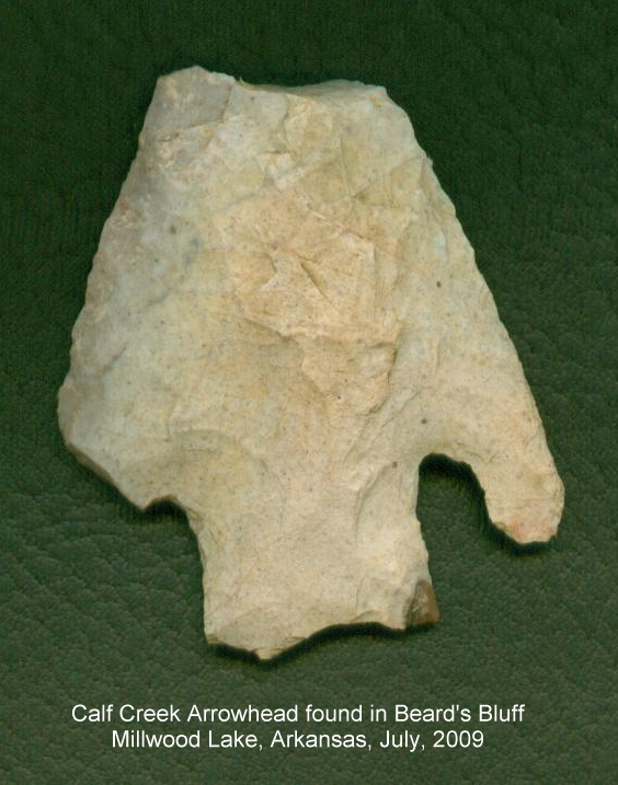 Calf Creek culture or tribe arrowhead.